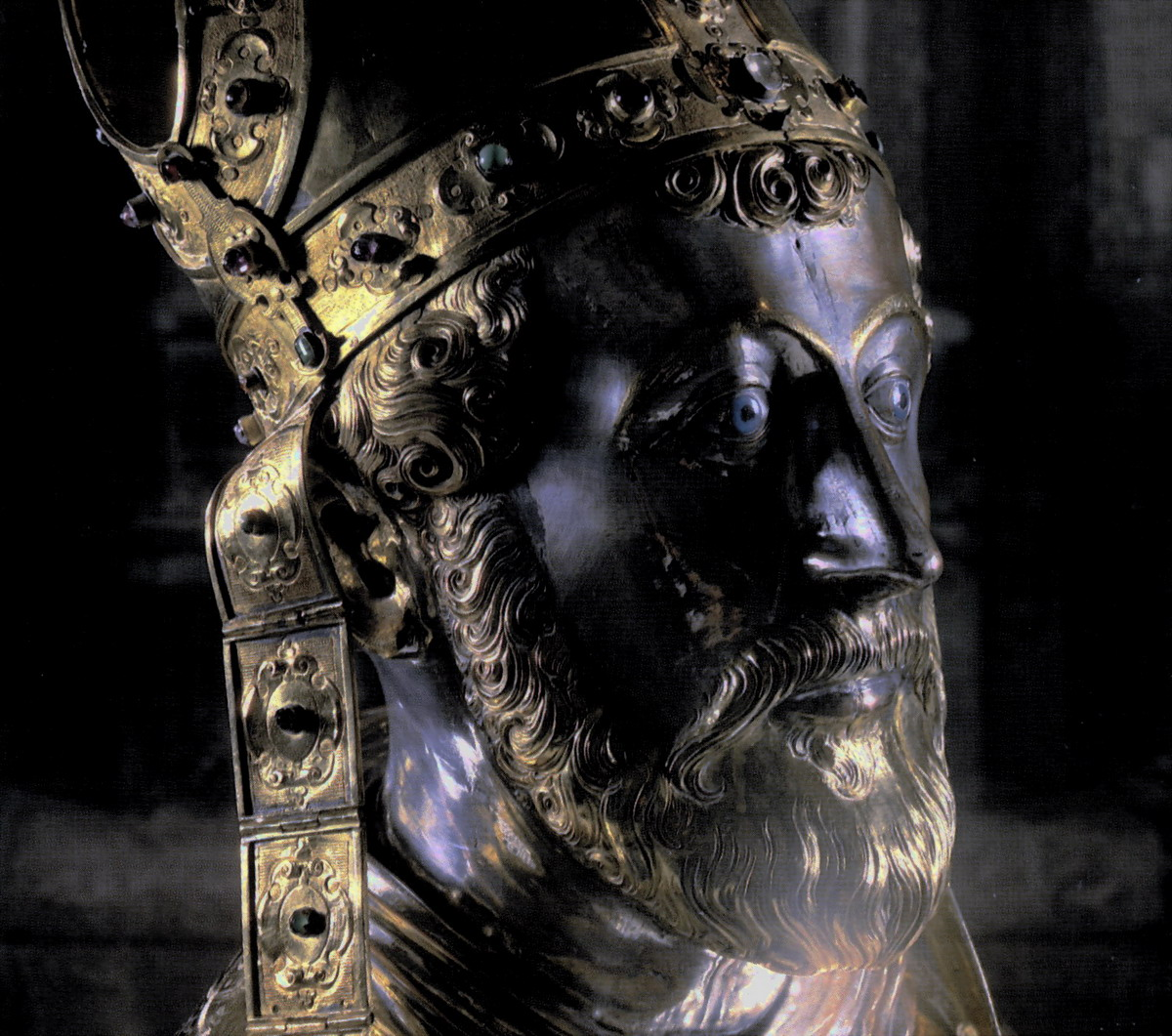 Detail of portrait bust allegedly containing the skull of Saint Servatius, in the treasury of the Basilica of Saint Servatius, Maastricht, the Netherlands. Gilded silver bust donated by Alessandro Farnese, Duke of Parma.